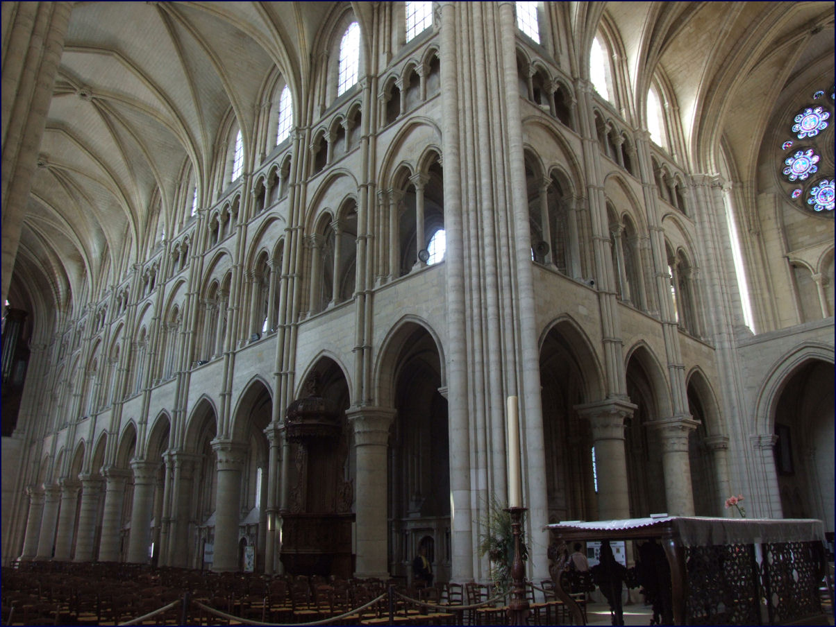 Cathédrale Notre-Dame de Laon (Cathedral Notre Dame of Laon), Laon, France - Interior